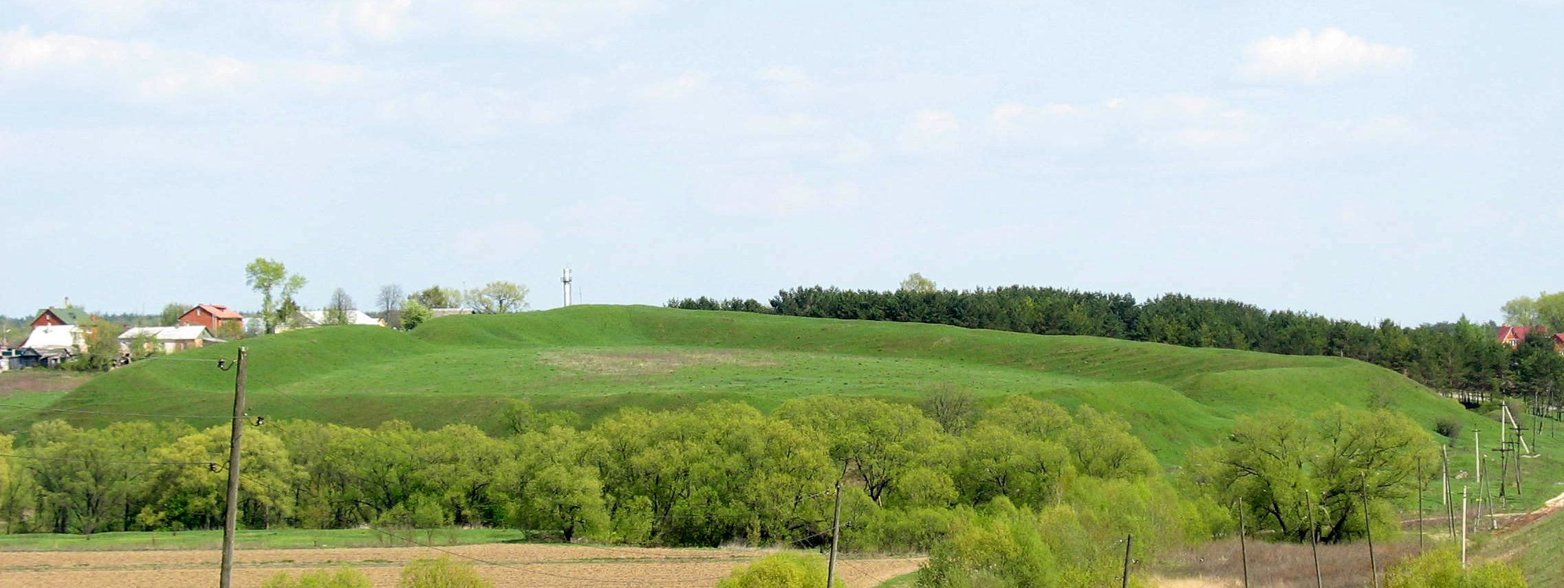 The Kashira site of ancient settlement. 7 — 4 centuries BC. View from Old Kashira